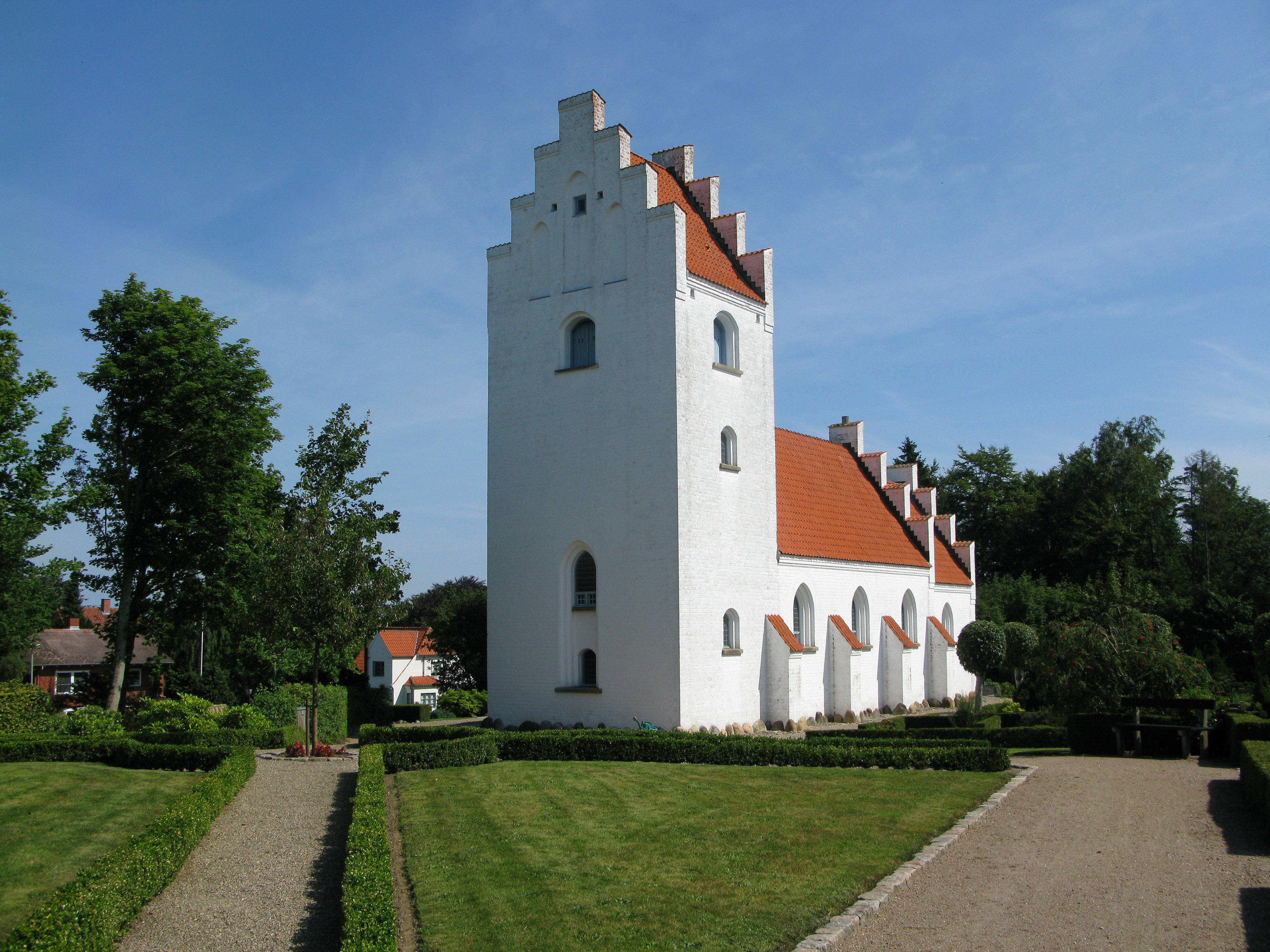 Church of Kvissel, Aalborg Diocese